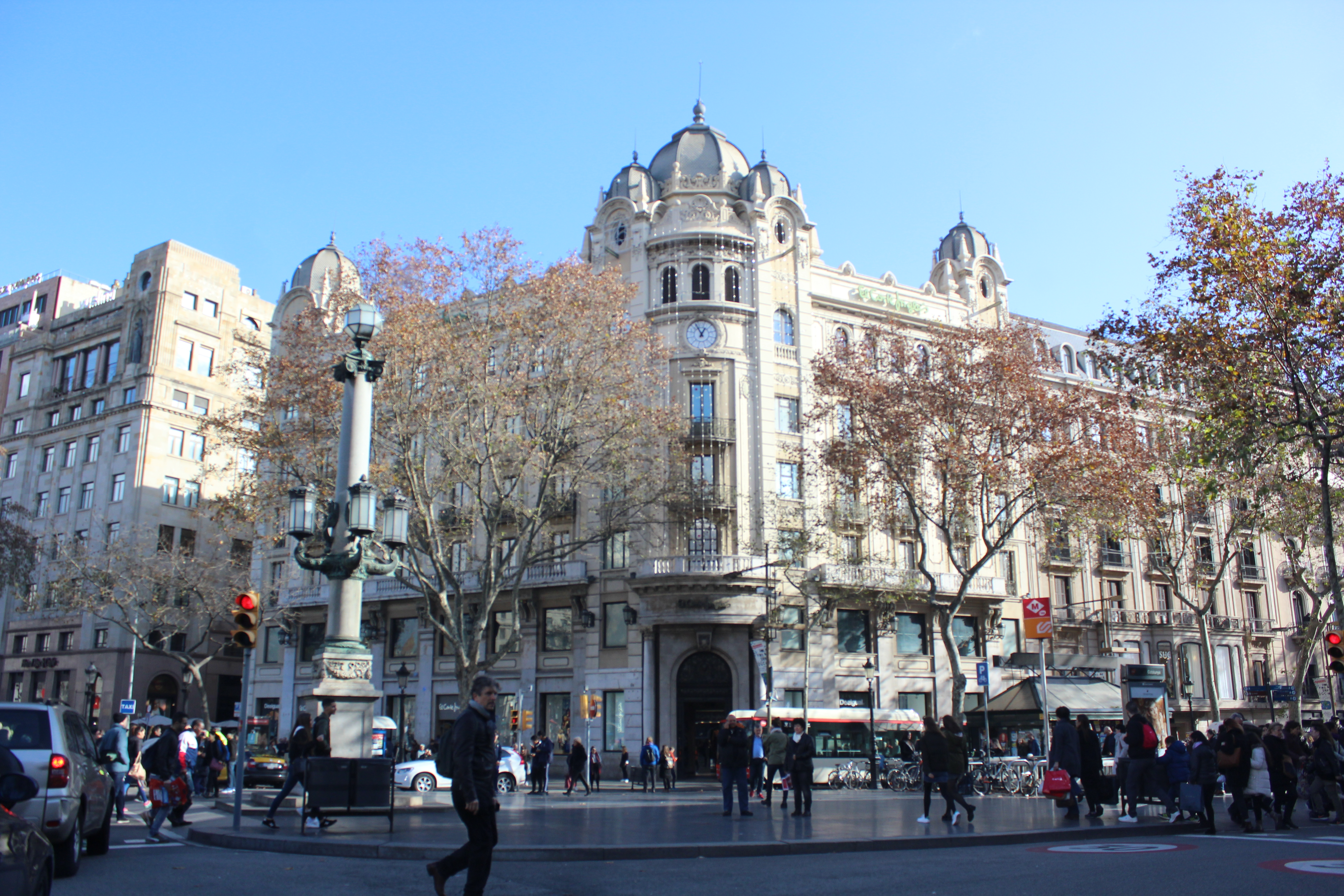 Former building of Banc Central in Barcelona